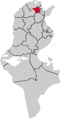 Map of Tunisia with highlighted Manouba Governorate